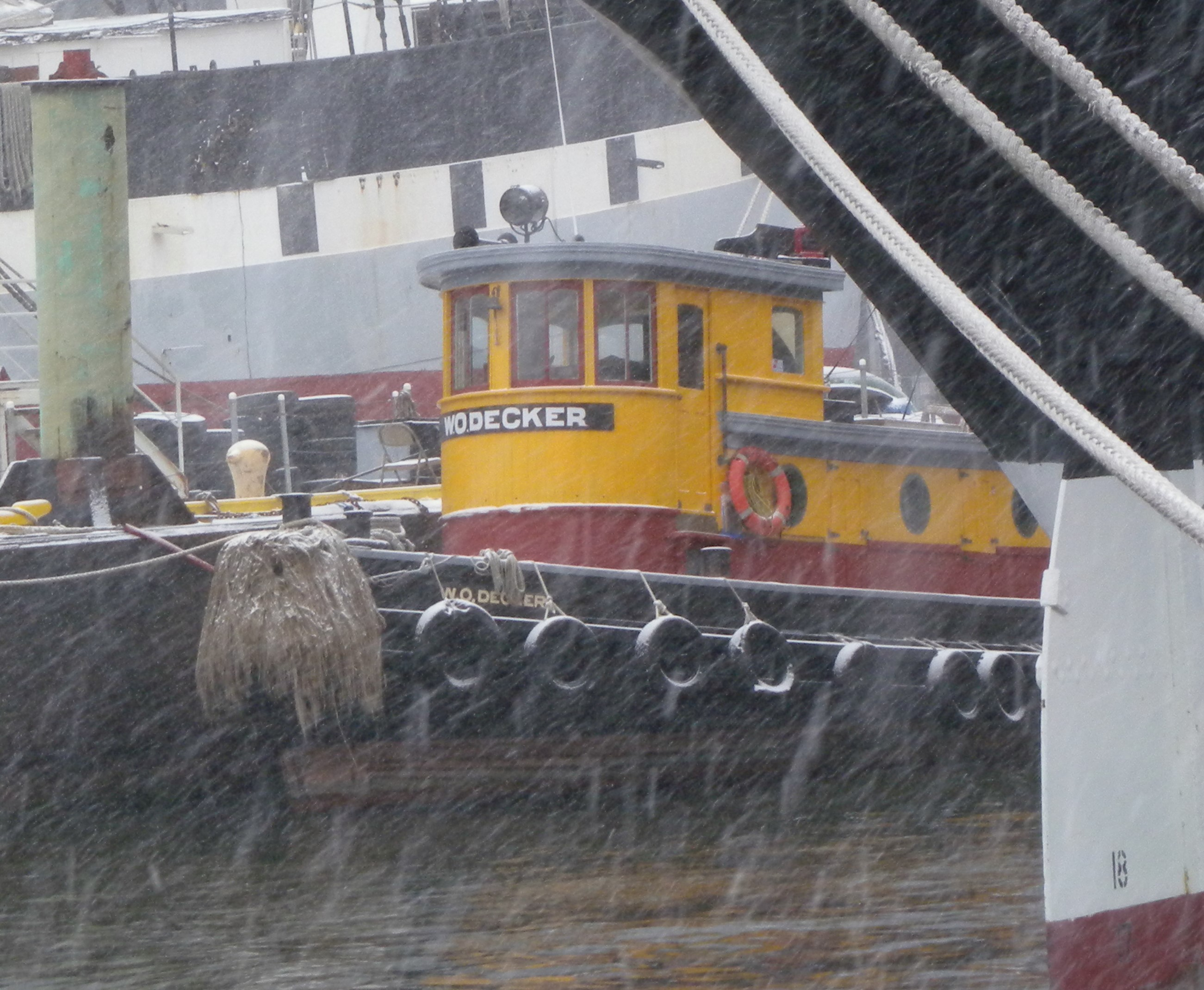 Looking west under stern of sailing ship Peking, at the Decker early in the snowstorm.